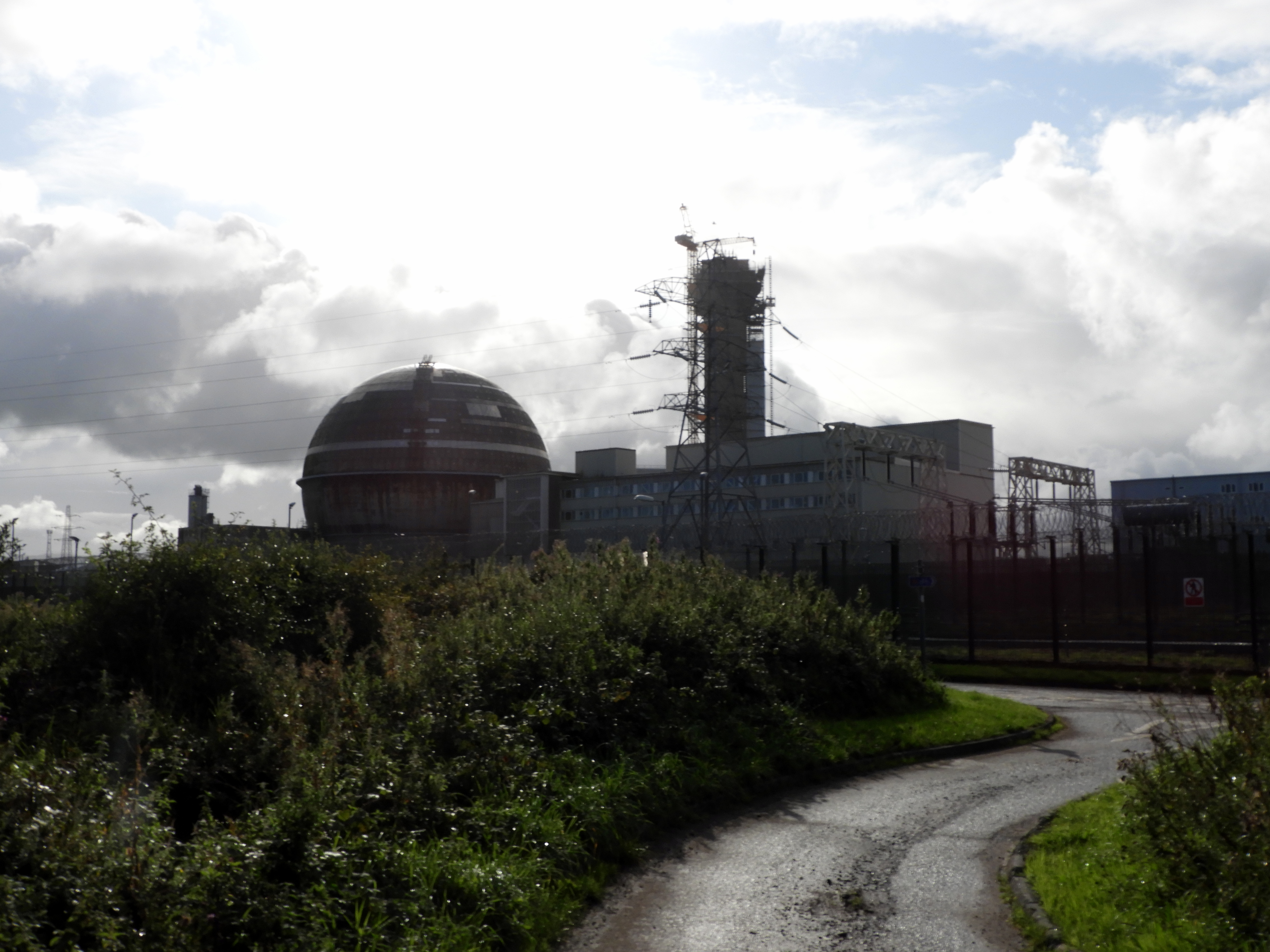 Sellafield is a nuclear fuel reprocessing and nuclear decommissioning site incorporating the original nuclear reactor site at Windscale, which is undergoing decommissioning and dismantling, and Calder Hall, which is also undergoing decommissioning and dismantling of its four nuclear power generating reactors.